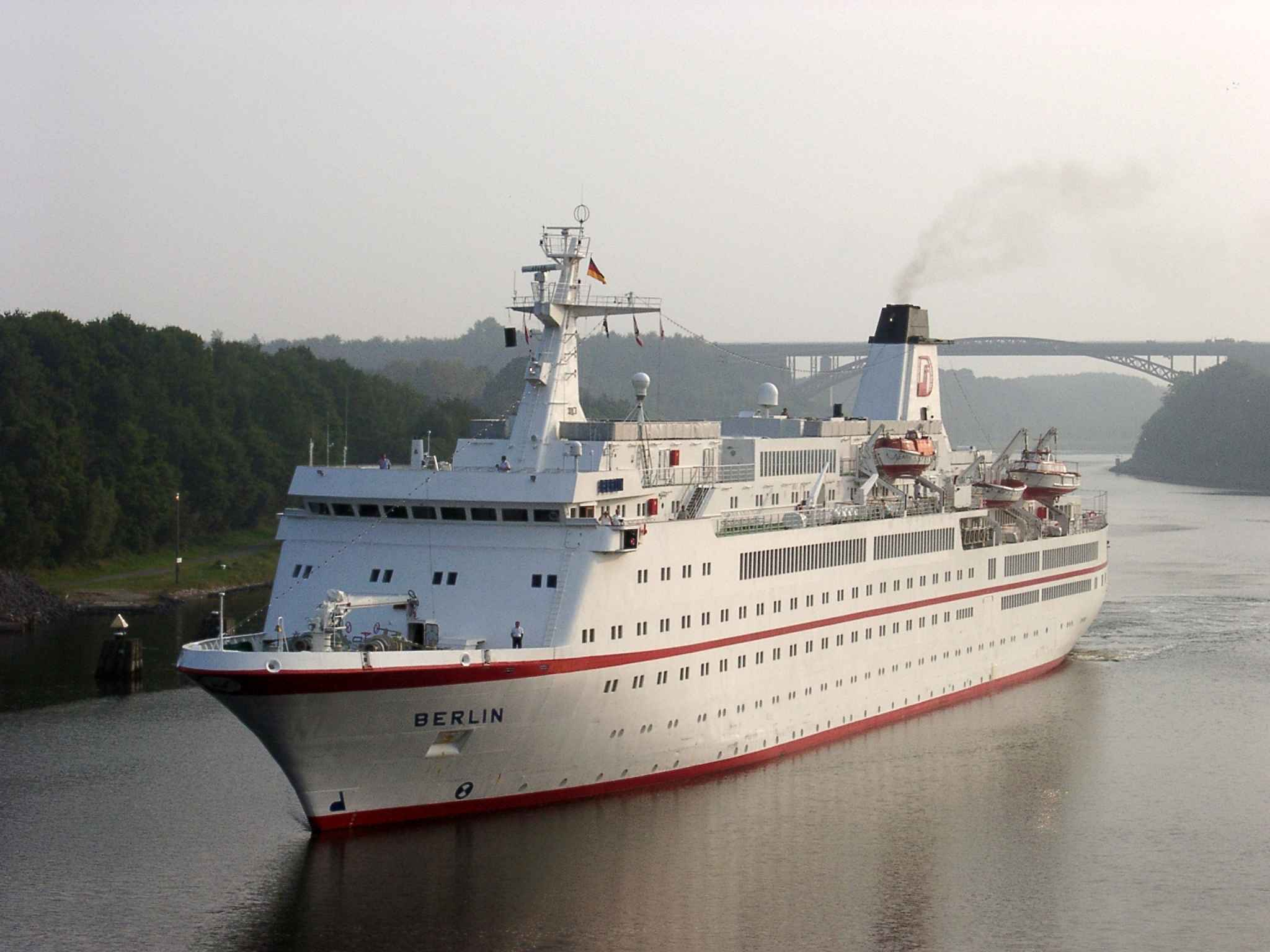 MS Berlin